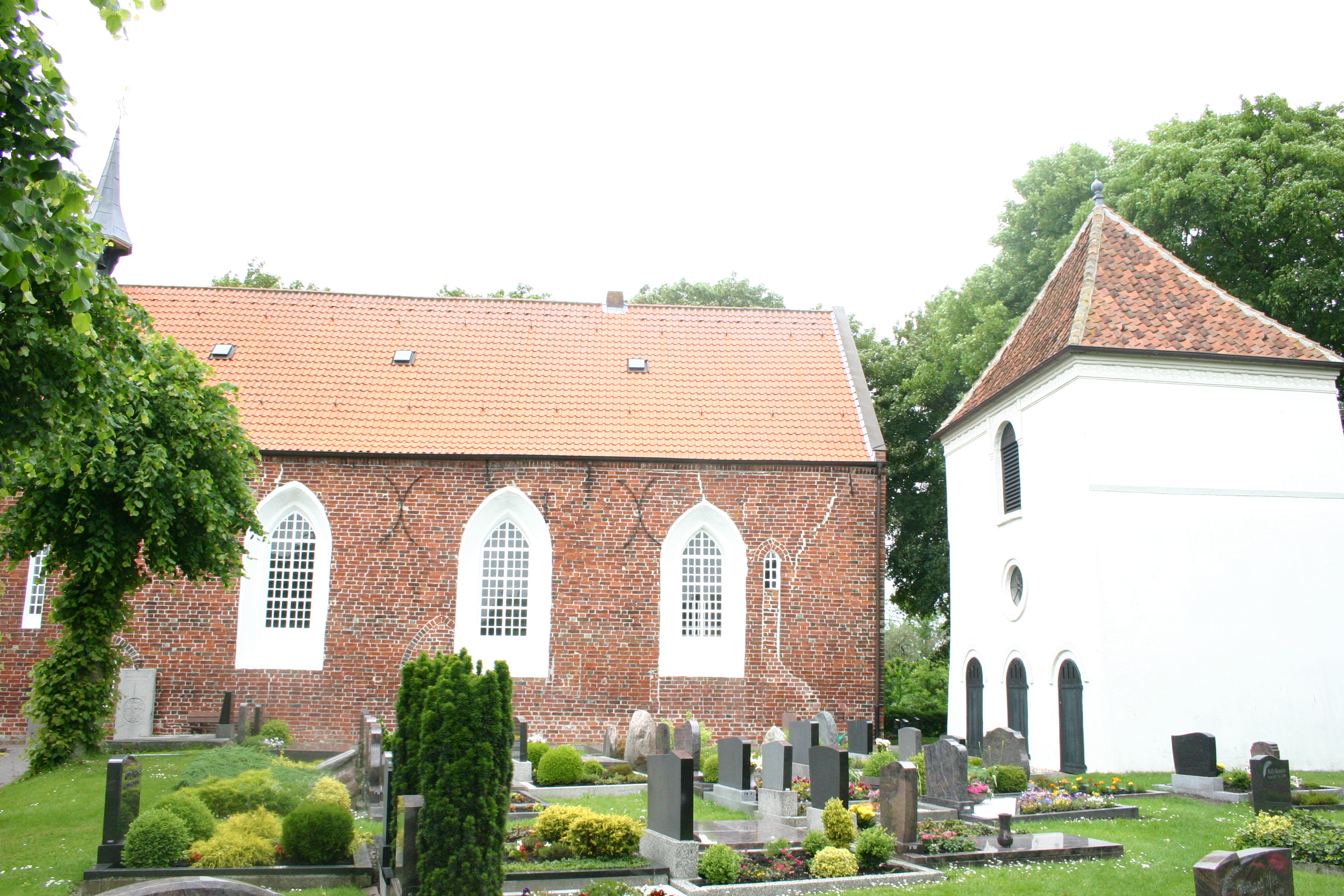 Historic church in Upleward, district of Aurich, East Frisia, Germany